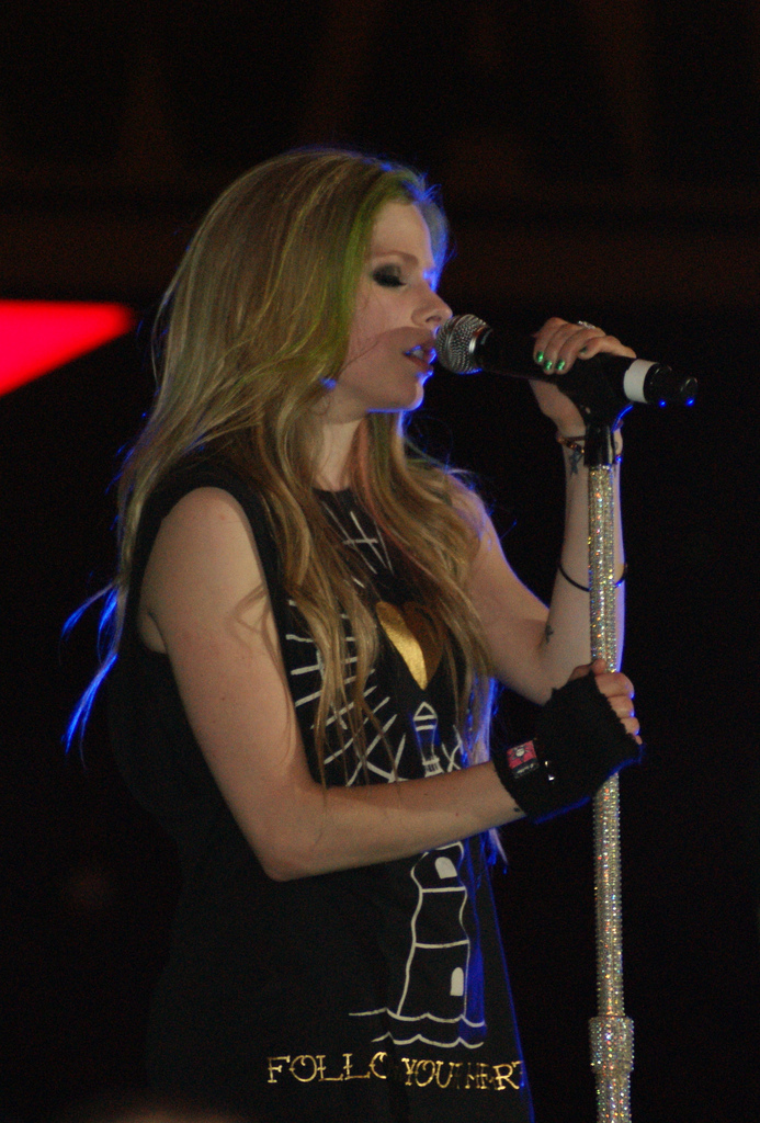 Avril Lavigne singing on stage with her eyes closed during her Black Star Tour on May 28, 2011. The venue is the Tropicana Field stadium in St. Petersburg, Florida, during the Rays/Hess Express Saturday Concert Series. Photographed on a Sony DSLR-A290.